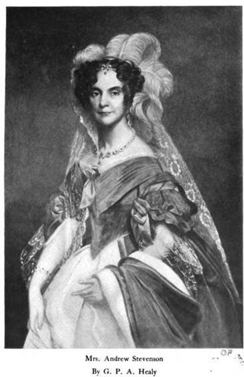 Sarah (Sally) Coles (Mrs Andrew Stevenson)